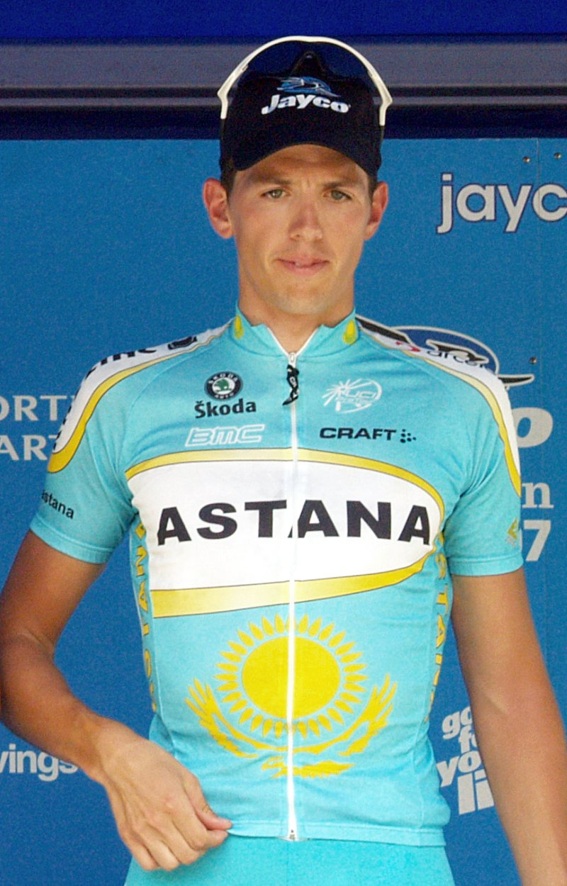 Swiss cyclist Steve Morabito (Team Astana) on the podium following Stage 7 of the 2007 Herald Sun Tour, Melbourne, Australia, having finished the Tour in 2nd place overall.